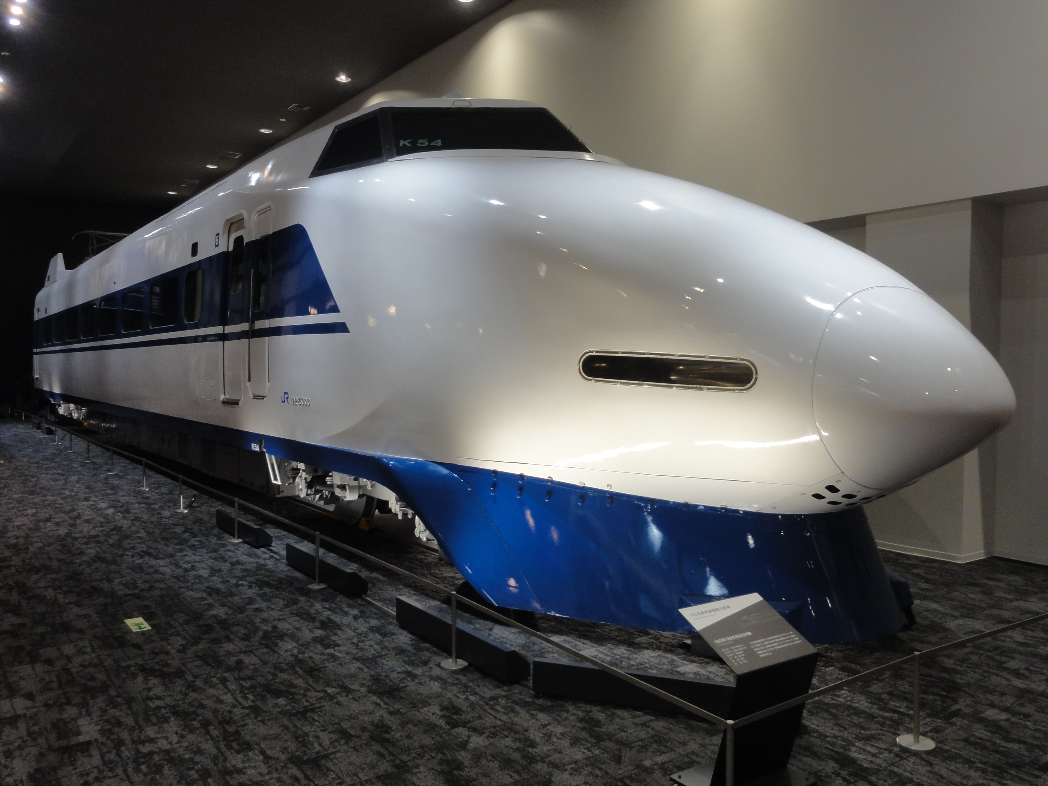 Former JR West 100 series shinkansen car 122-5003 (of set K54) preserved at the Kyoto Railway Museum in Kyoto, Japan